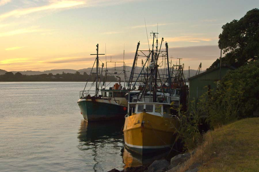 Fishing boats in Tauranga harbour.